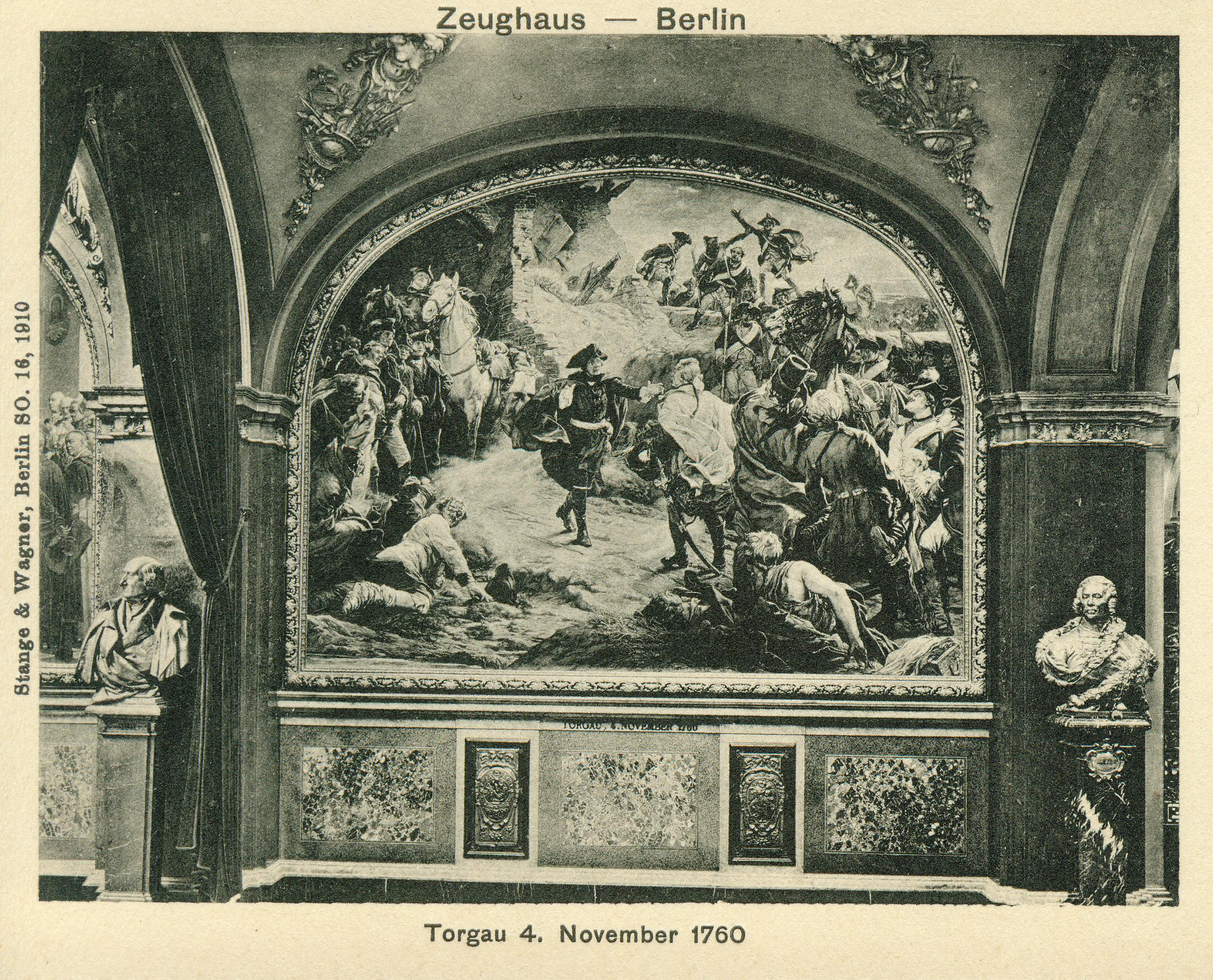 Ruhmeshalle Berlin, wallpainting by Peter Janssen der Ältere